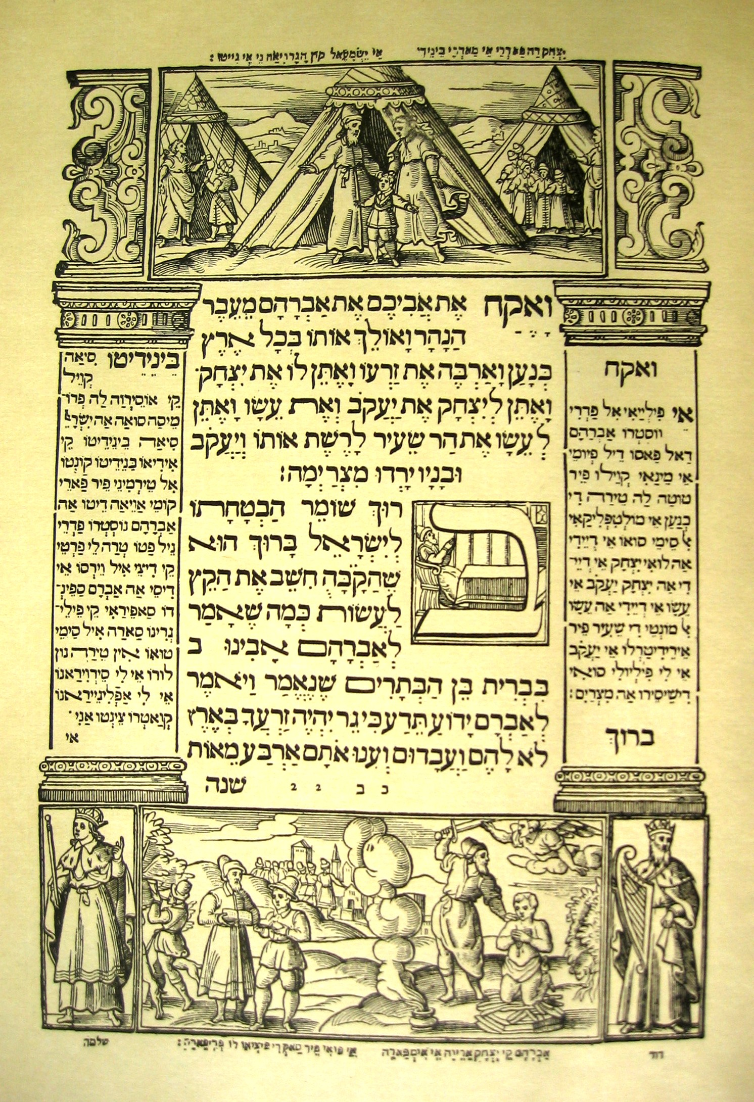 A page from the Venice Haggadah, a Haggadah first printed in 1609. From the Yale University Library, "The image on the top of the page shows Abraham with the three women in his life. In the center are Sarah and Isaac; on the left are Hagar and Ishmael and on the right are Keturah and her children. On the bottom of the page, we see scenes from the life of Isaac. One scene depicts him as he was about to be sacrificed by his father and the angel calls out to him to stop. The other scene shows Isaac as an older man teaching his son Jacob Torah while the older son, Esau, goes hunting."